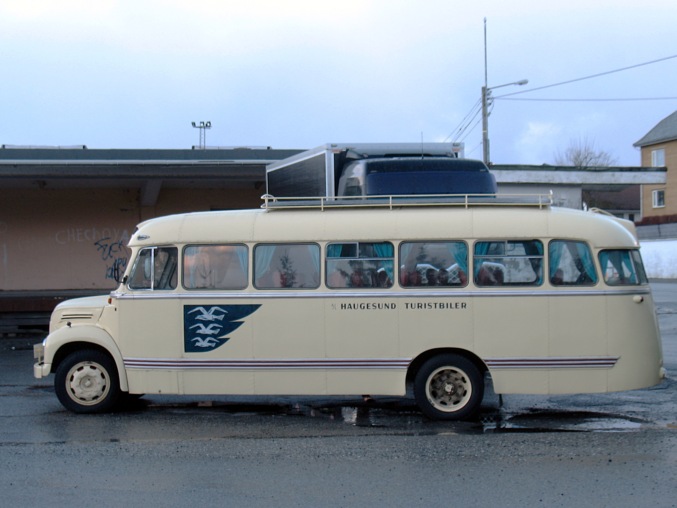 Dodge L-9162 (1950) From Haugesund